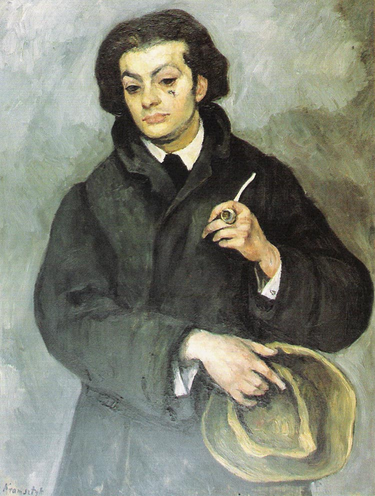 Portrait of Moise Kisling